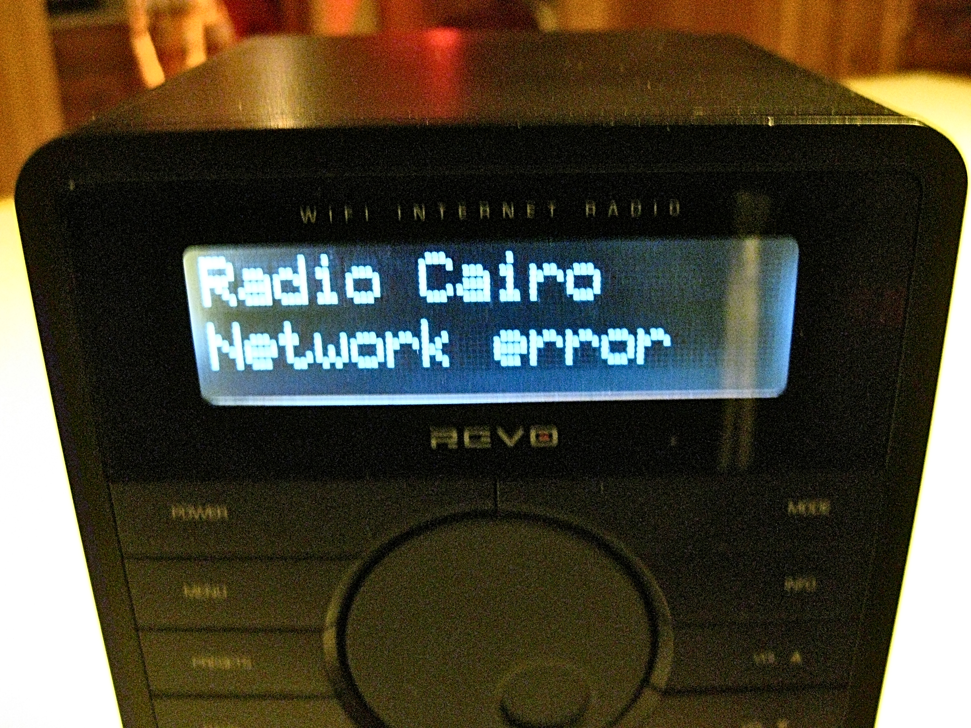 Radio Cairo displays a DNS error as Egypt is effectively taken off-line during the historic January 2011 protests. More specifically, neither the webpage " .eg" nor the server could be found.